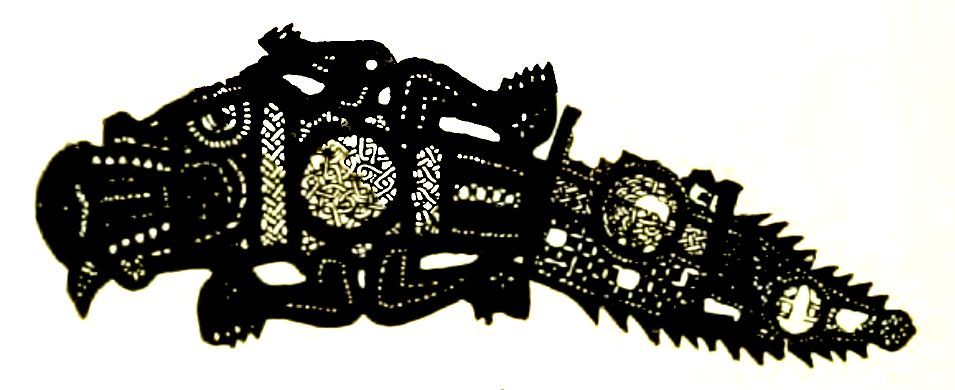 Crocodile, shadow puppet, Egypt, collected ny Paul Kahle 1909